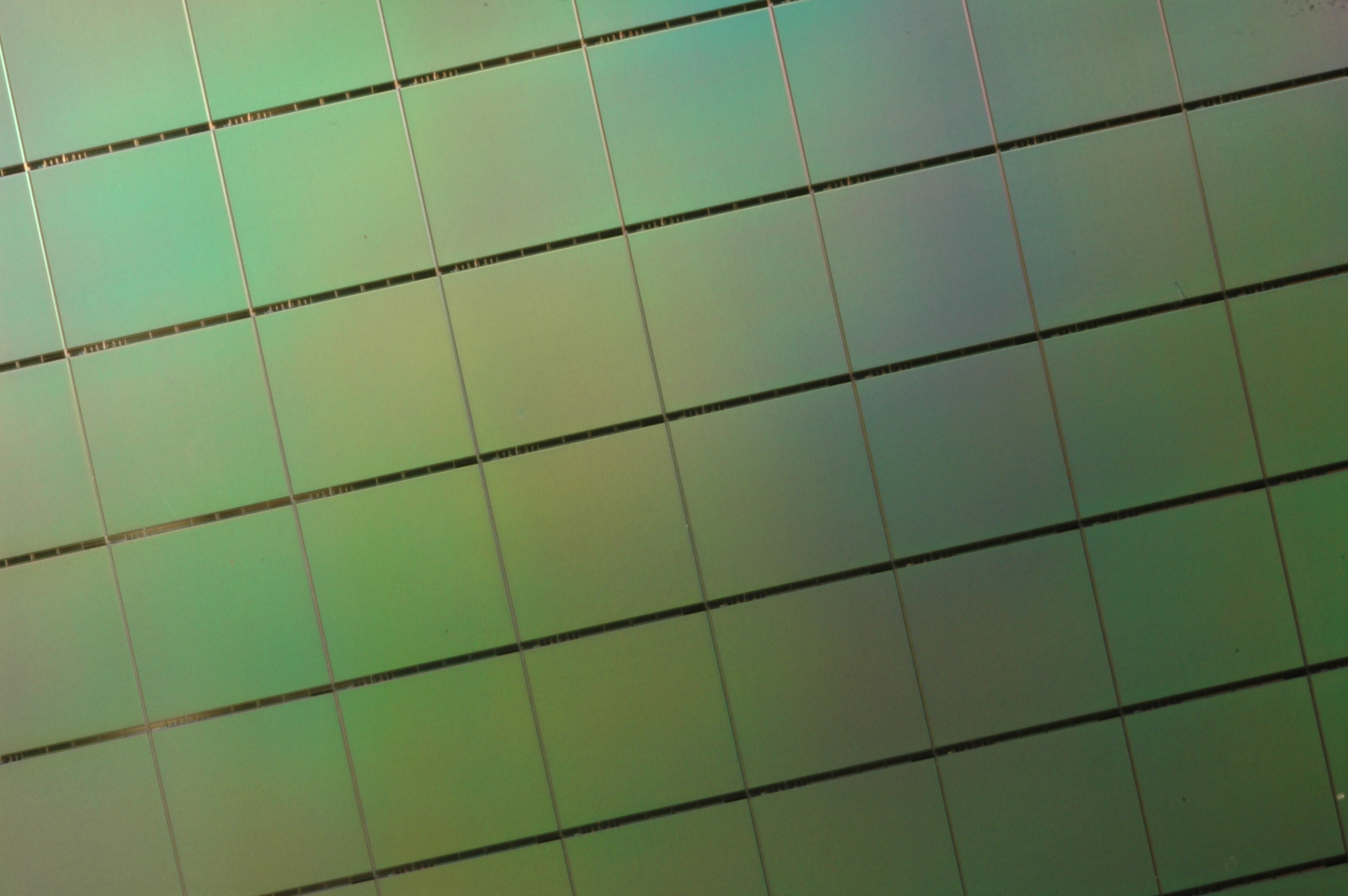 Orthogonal Transfer Array CCD designed for the One Degree Imager project.